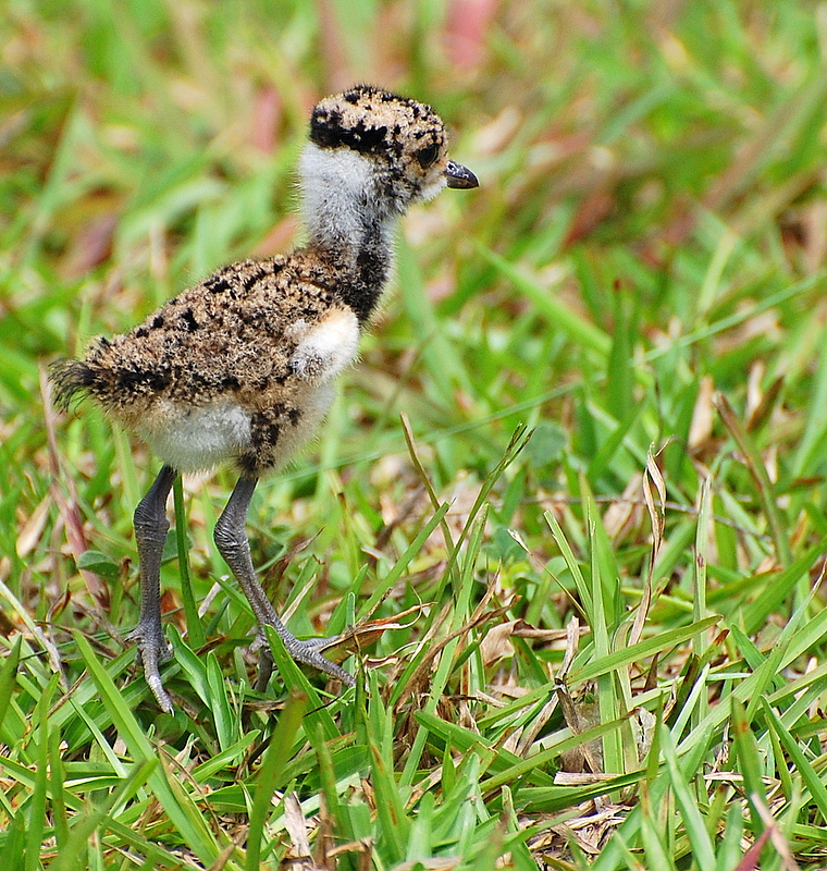 A Southern Lapwing (Vanellus chilensis), chick